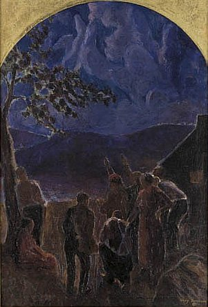 Swing Low, Sweet Chariot by Malvin Gray Johnson